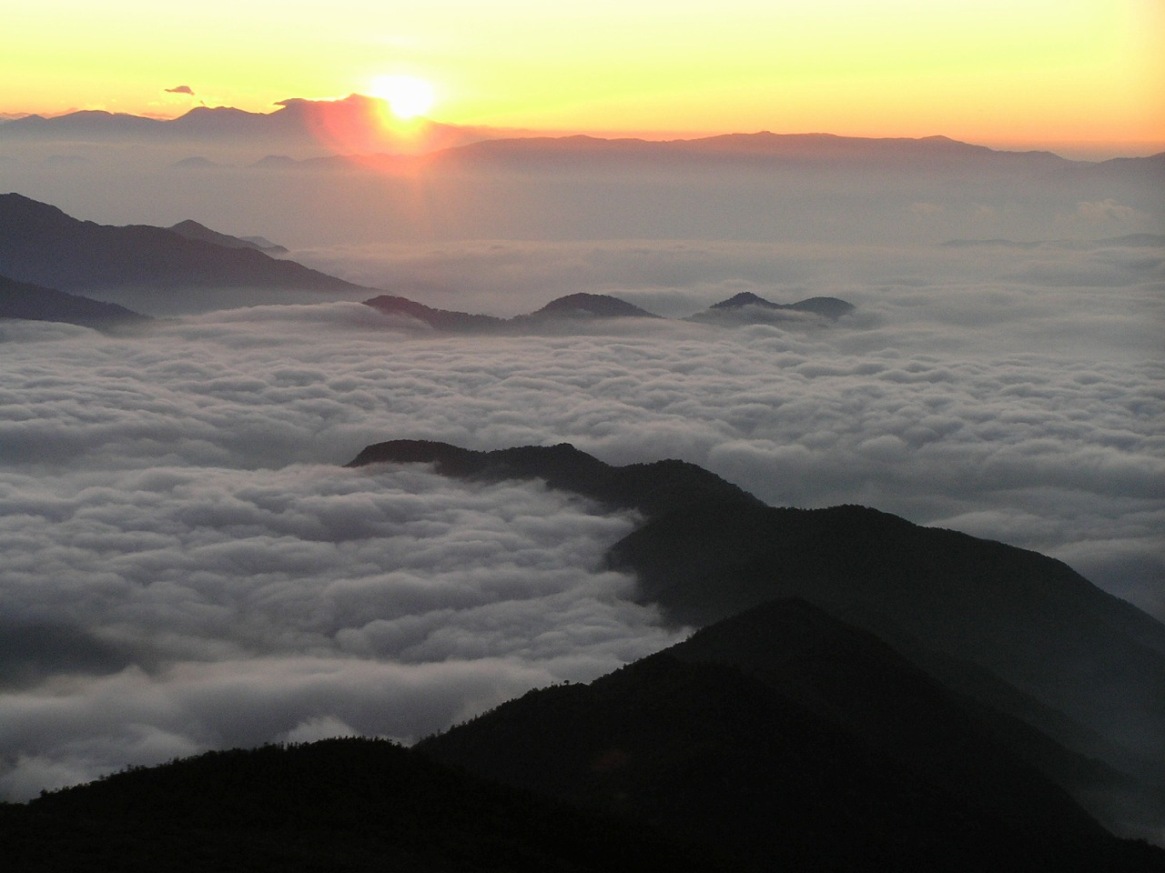 Mt Fujimi sea of clouds and sunrise Norikura